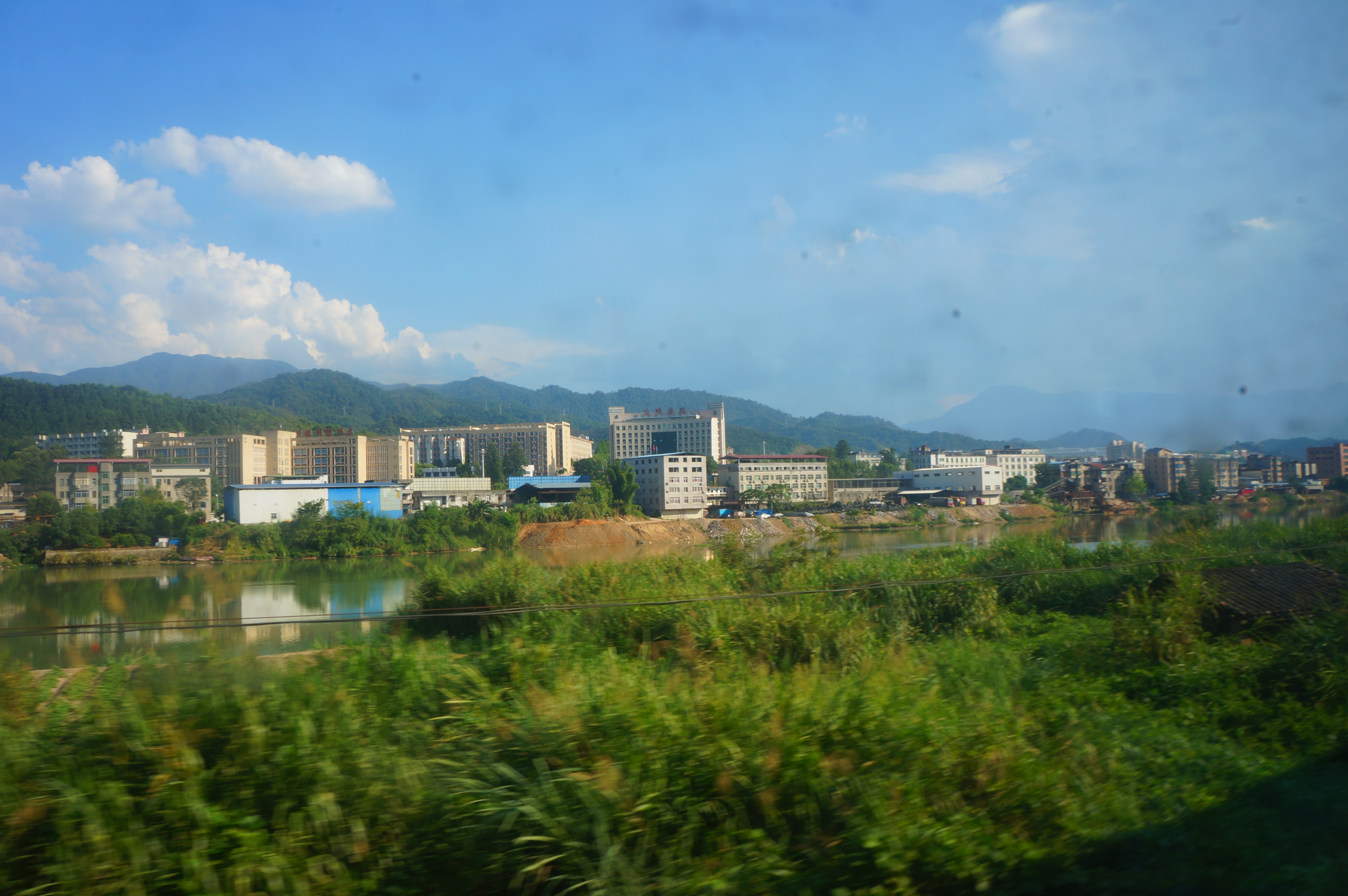 201708 Jingxi (Specifically Jingdong), Sanming